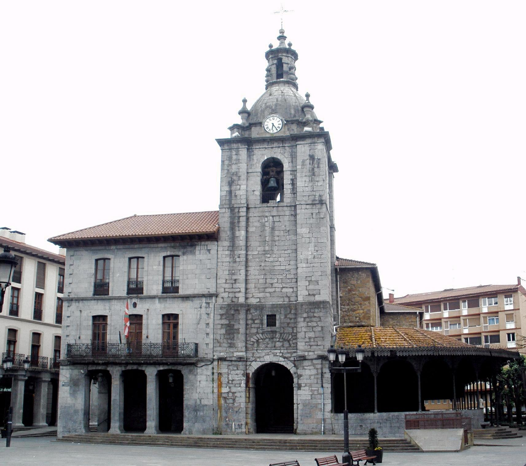 Iglesia parroquial de San Pedro de Lamuza, en Llodio (Álava, País Vasco, España)